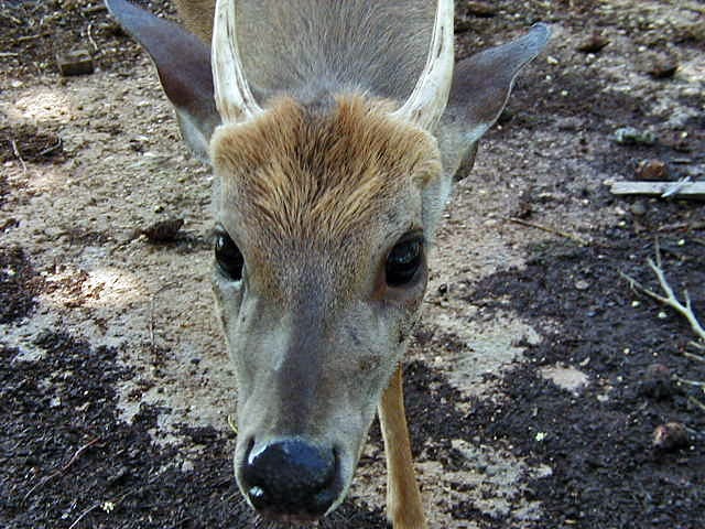 Yucatan Brown Brocket, Mazama Pandora